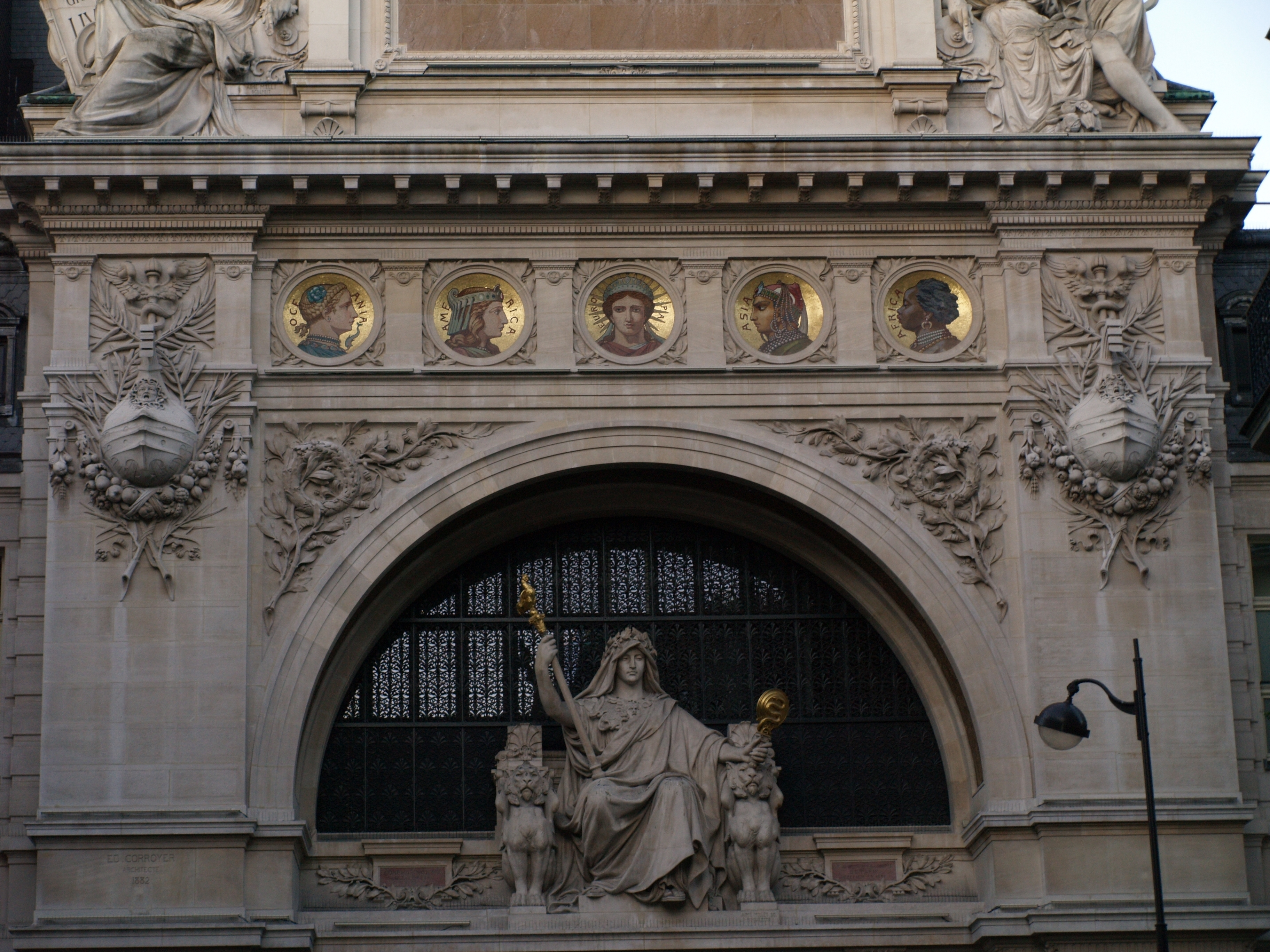 Focus on the allegories of the five continents of the BNP Paribas building rue Bergère, designed by the architecte Edouard Corroyer.